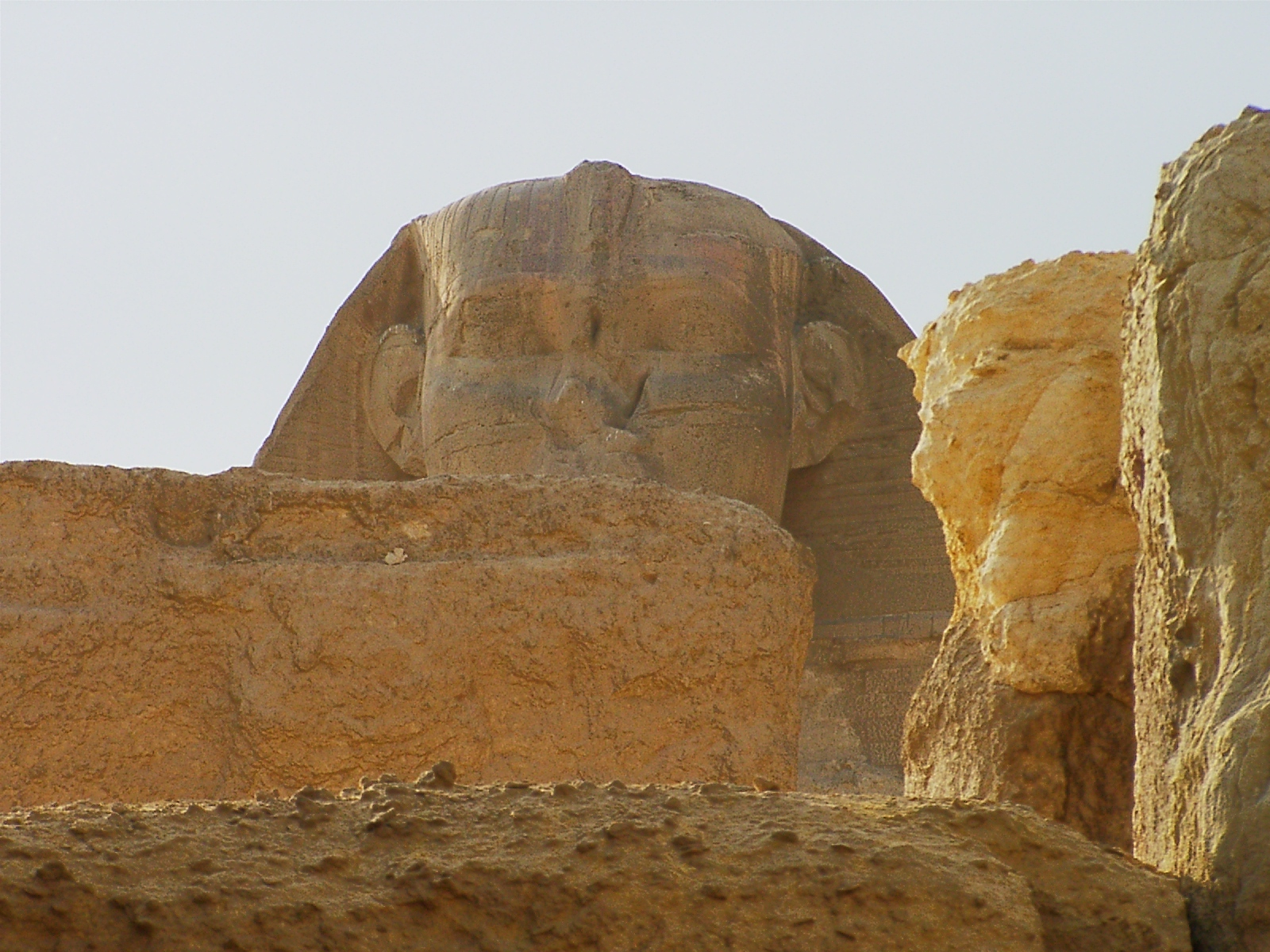 The Sphinx, peeping over his temple's rocks